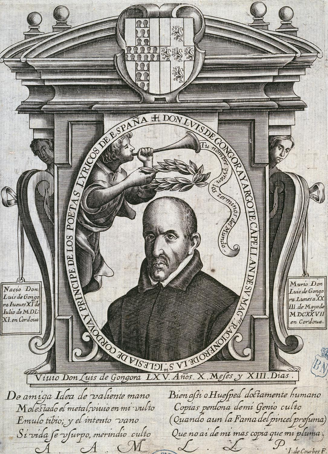 Line engraving of Luis de Góngora by Jean de Courbes